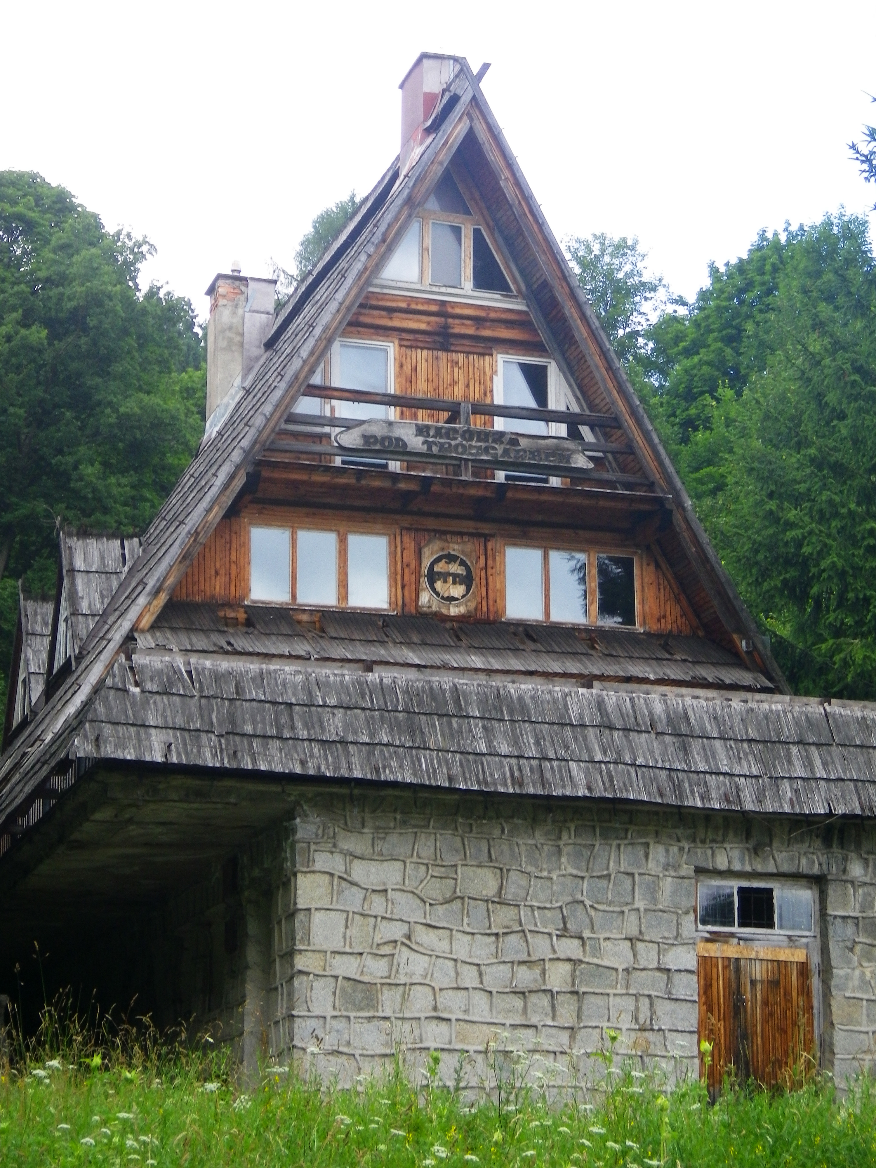 "Bacówka pod Trójgarbem" mountain hut (2013)